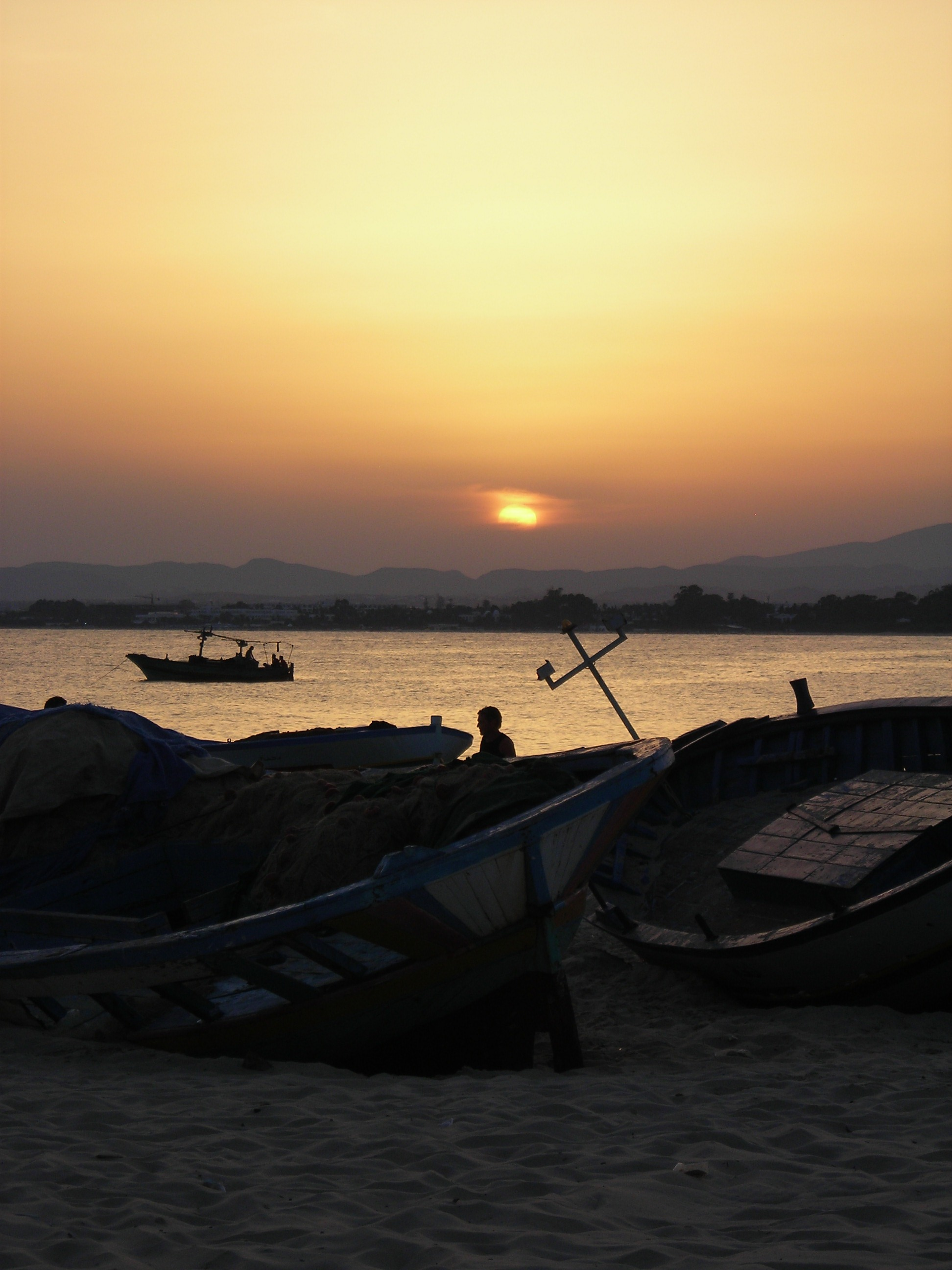 Sundown over the Gulf of Hammamet, as seen from Hammamet